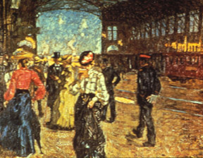 main hall of the old stuttgart railroad station. "Hermann Pleuer’s more representational view of the arched steel and glass Main Hall Old Stuttgart’s Railroad Station, in 1905, shows well-attired patrons awaiting an arrival or departure." [1]